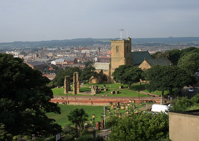 St Mary's Church Viewed from the slopes on which Scarborough Castle is situated. Town centre in the background.